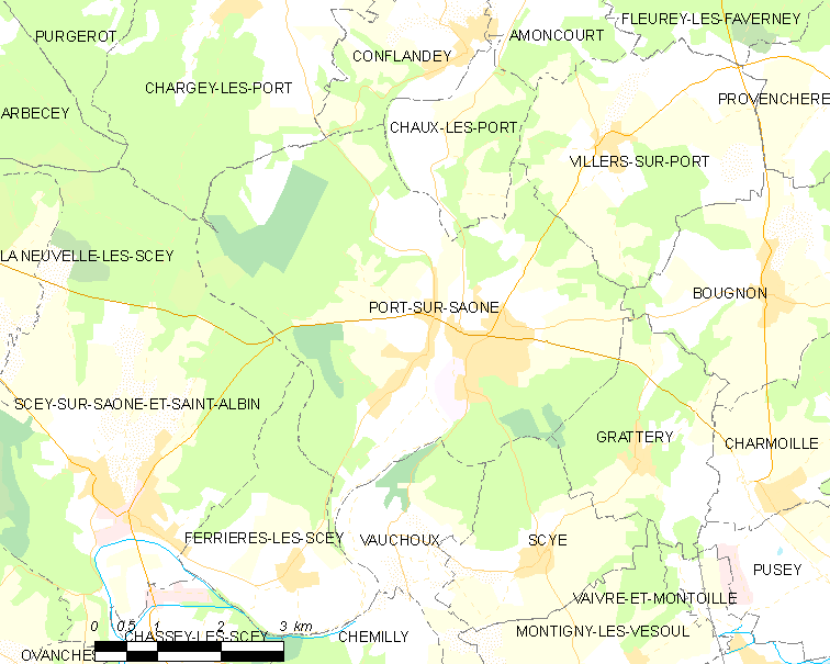 Map of French municipality